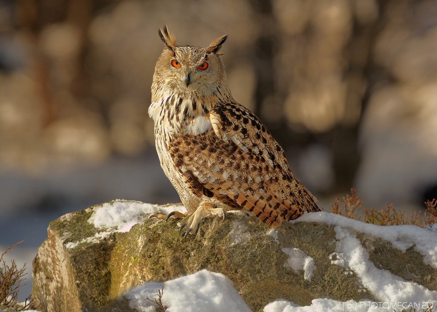 Bubo bubo sibiricus, young bird, Herálec, Czech Republic